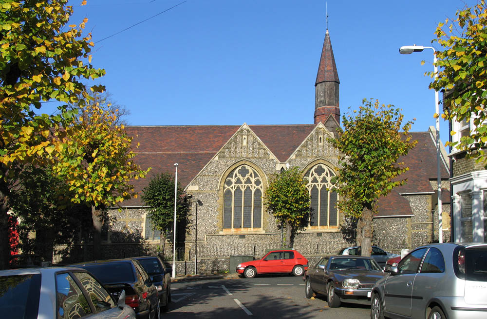 St Matthew, Dyson Road, London E15